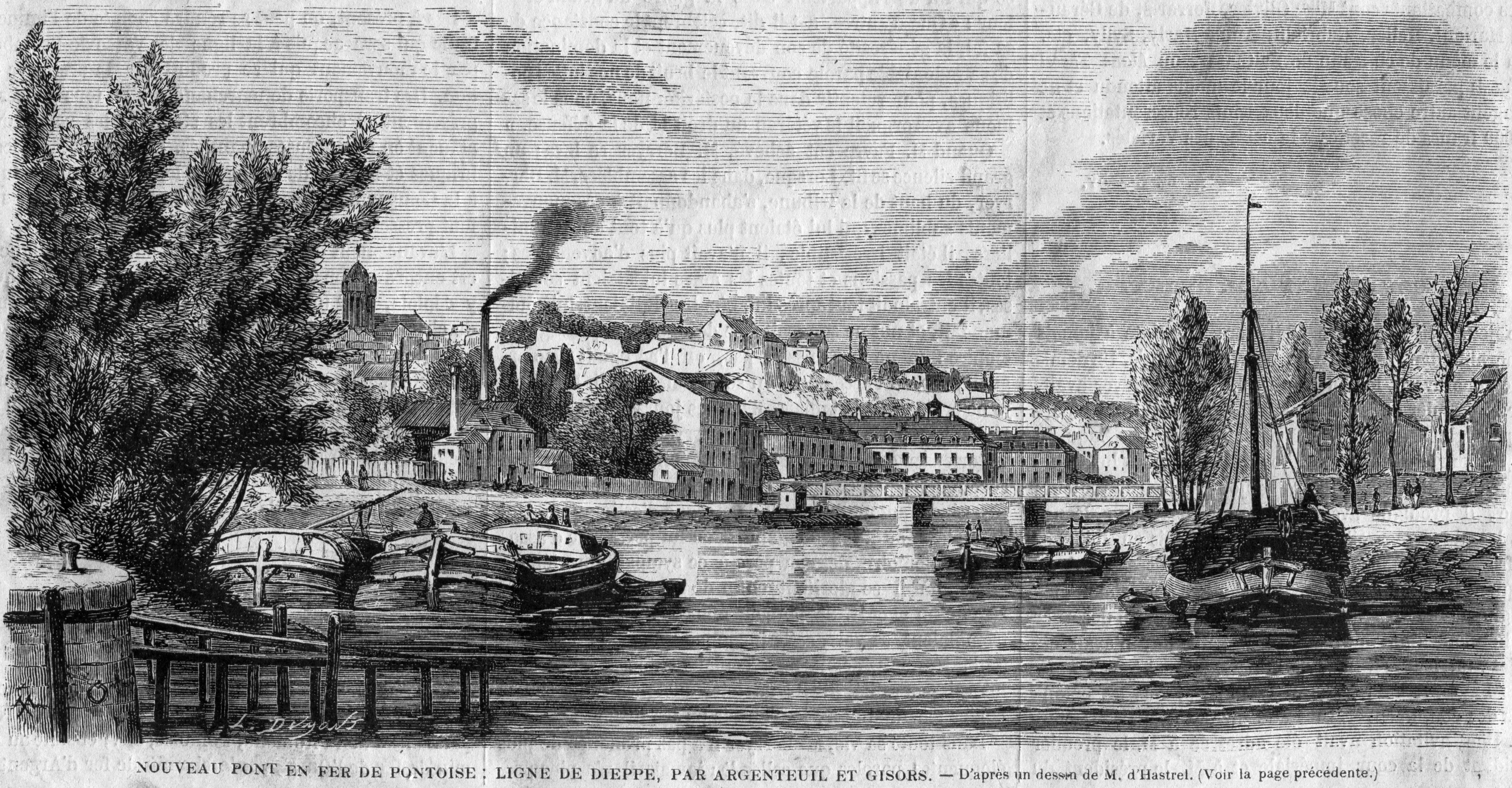 L'Illustration 1862 gravure Nouveau pont en fer de Pontoise. ligne de Dieppe par Argenteuil et Gisors